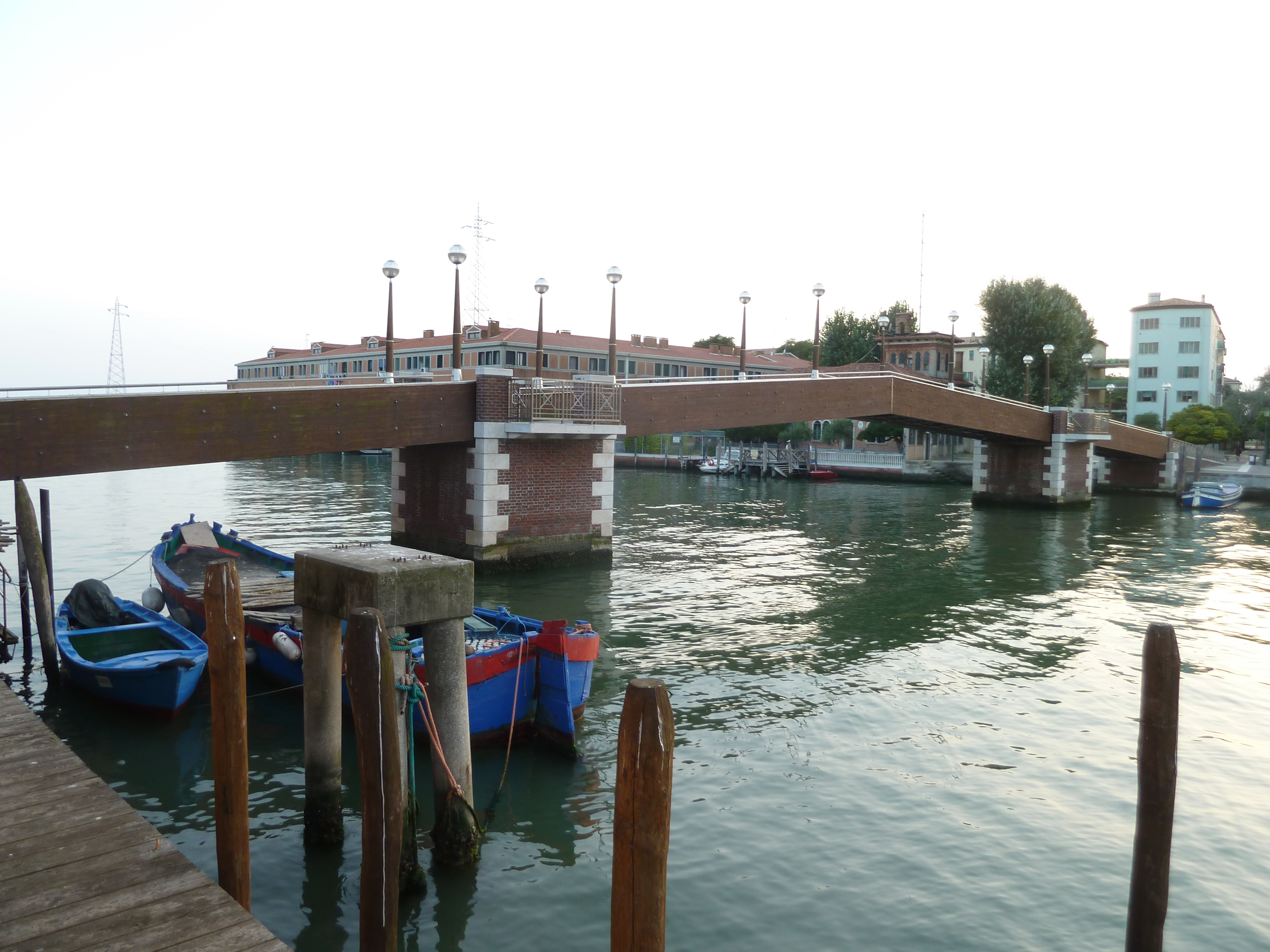 ponte lavraneri